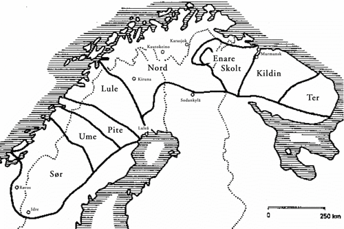 Map over traditional Sami language regions Sør = Southern Nord = Northern Enare = Inari